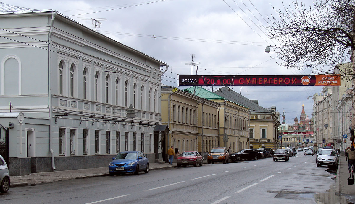 Beginning of Bolshaya Ordynka Street (no. 12,10,8,6 on the left)